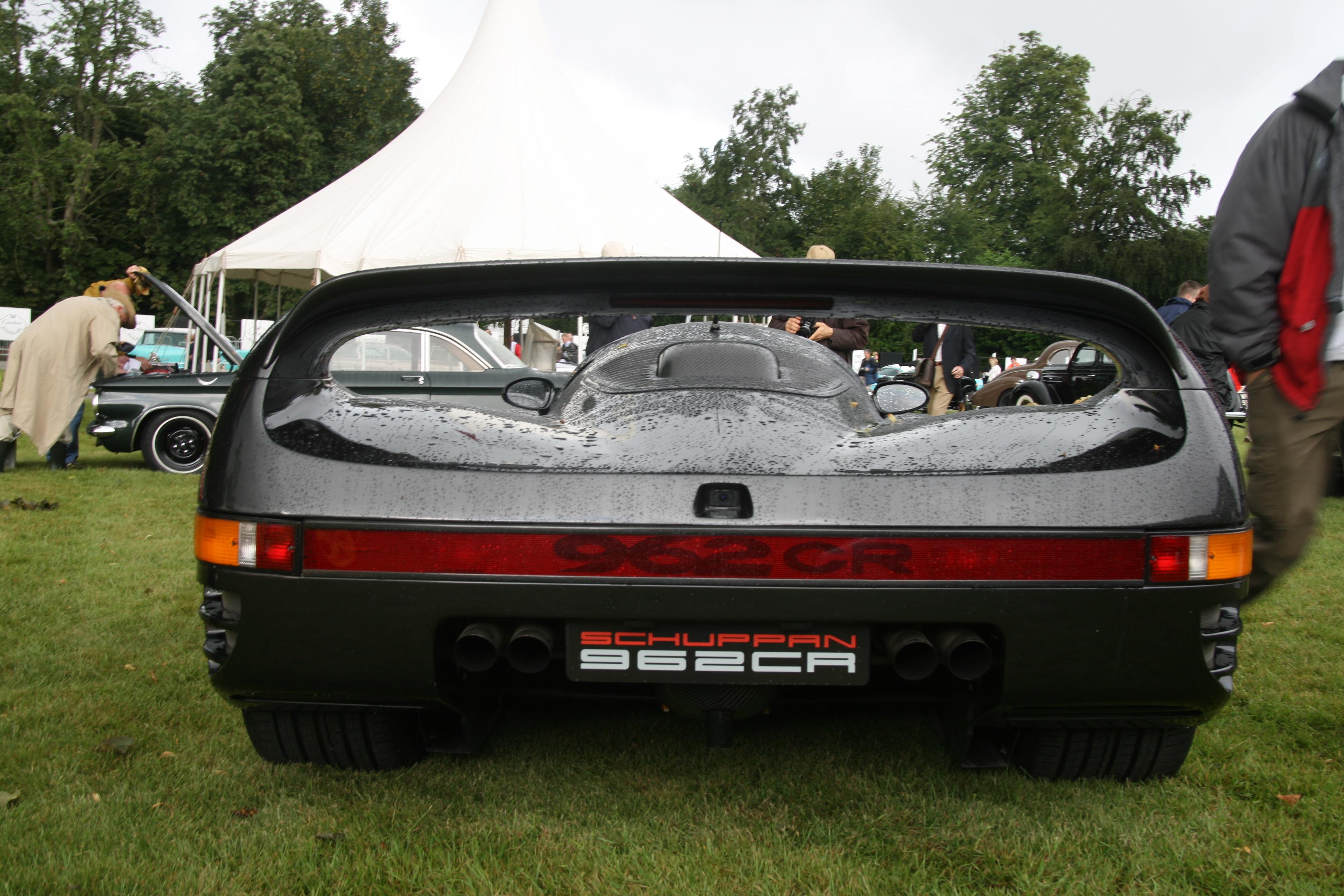 A Schuppan 962CR at the Goodwood Festival of Speed